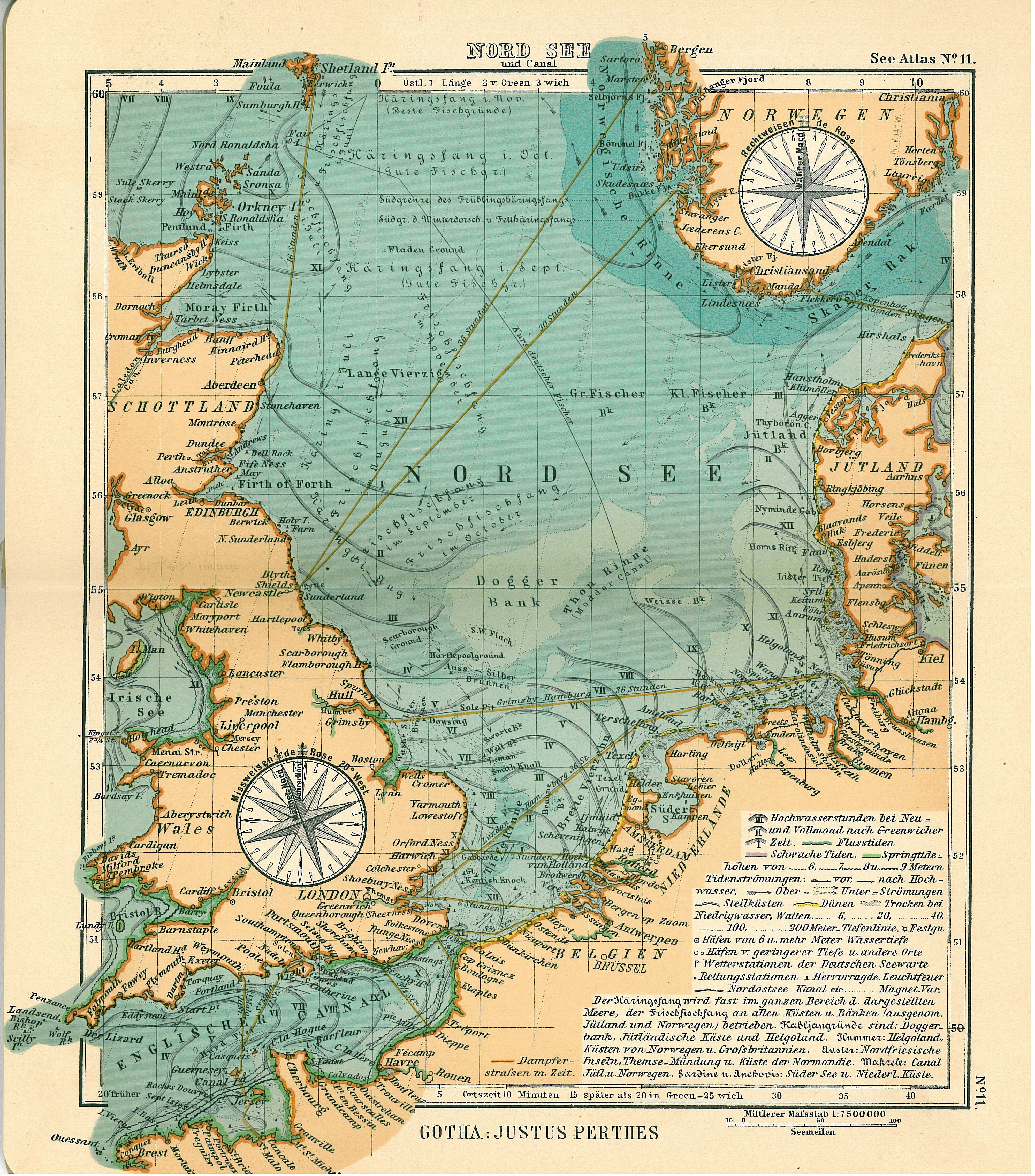 Page 11, North Sea